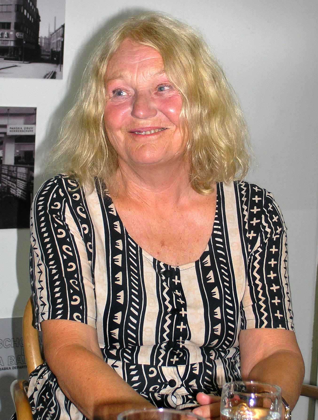 Eda Kriseová, Czech writer and journalist, at the Book Fair in Ostrava, Czech Republic